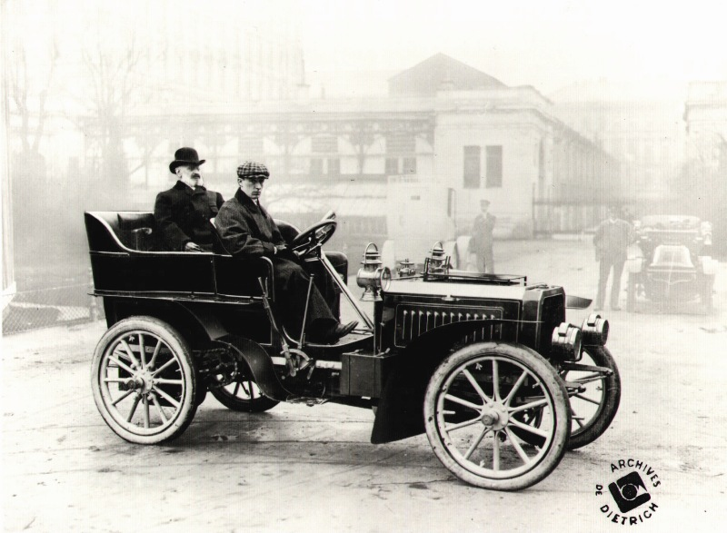 De Dietrich Licence Bugatti Touring car, either model 16 HP or 24 HP. (Also known as De Dietrich-Bugatti), Built 1902-1904. This is the first car assembled, with Ettore Bugatti behind the wheel, and De Dietrich company president Eugène de Dietrich on the rear seat. Photo shot at Reichshoffen (Alsace).